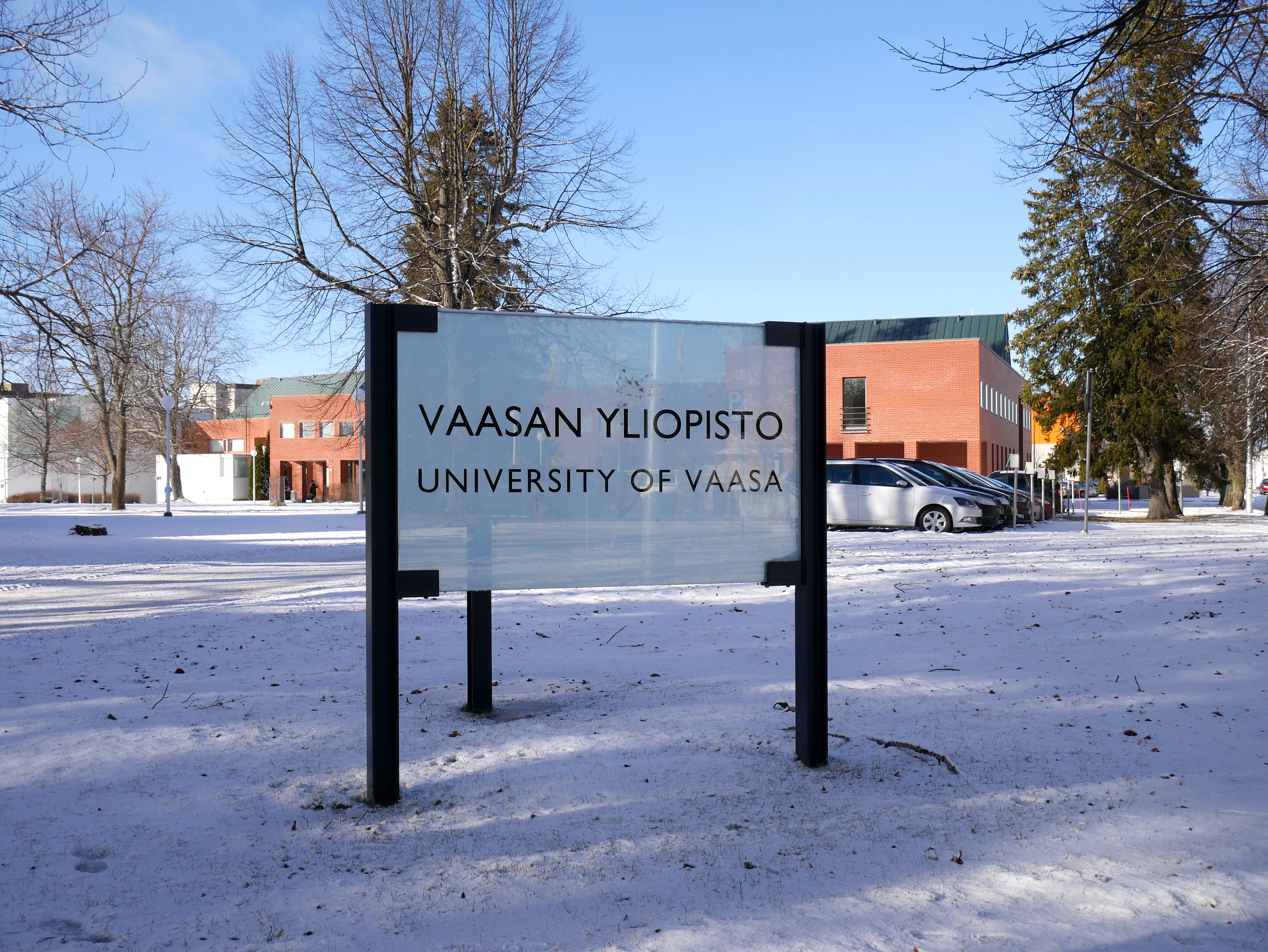 University of Vaasa sign.